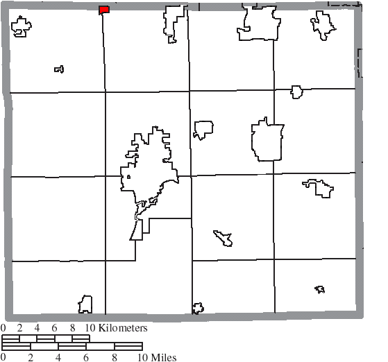 Map of the municipal and township boundaries of Wayne County, Ohio, United States, as of the 2000 census, with the location of the village of Burbank highlighted. Township borders are shown only in unincorporated areas in order to differentiate incorporated and unincorporated areas more clearly.